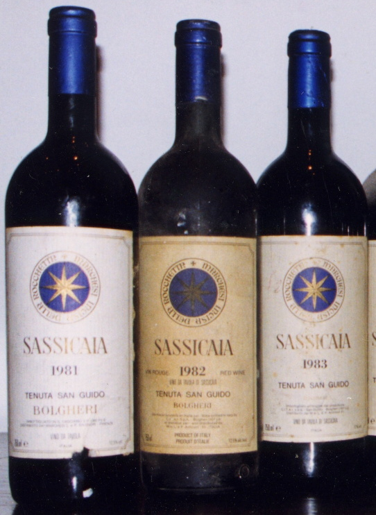 3 Bottles of Sassicaia, cropped from wide vertical collection